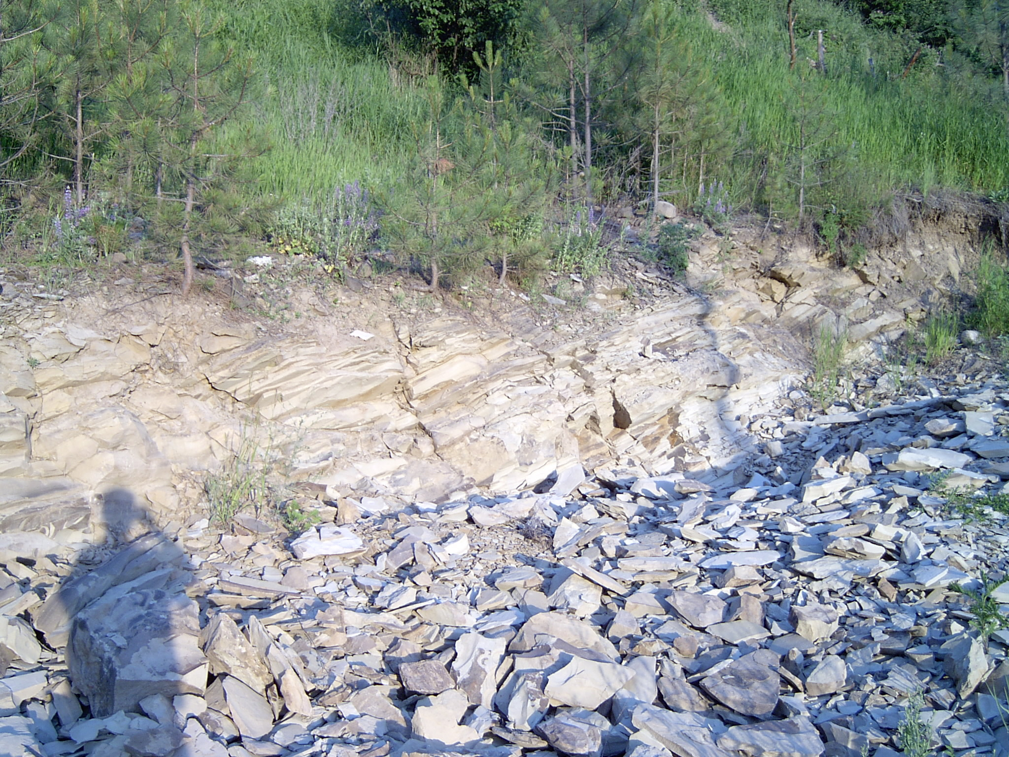 An outcropping of the Klondike Mountain Formation, Burke Museum/Stonerose Interpretive Center site number A0307. Ferry County, Washington USA